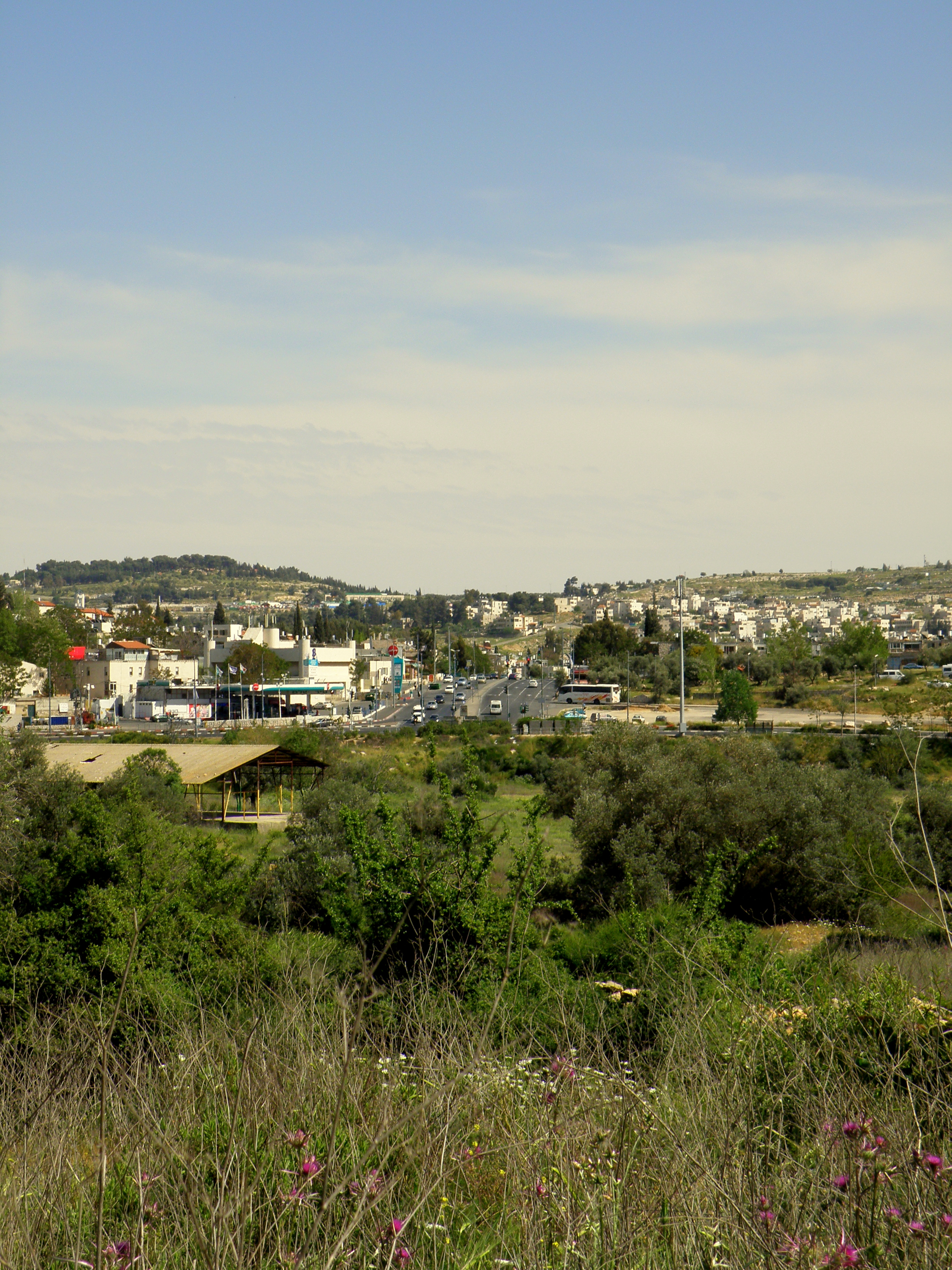 Jerusalem, Gazelle Valley, in the background, דלק gas station and Ya'akov Pat street near Pat Junction